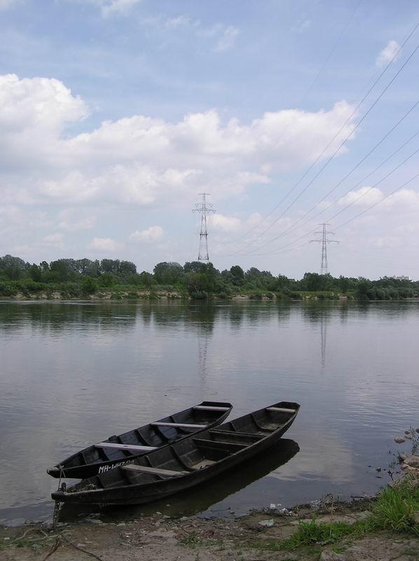 Boats over the Vistula river in Lomianki. View towards Warsaw. Nowodwory–Łomianki Vistula powerline crossing.